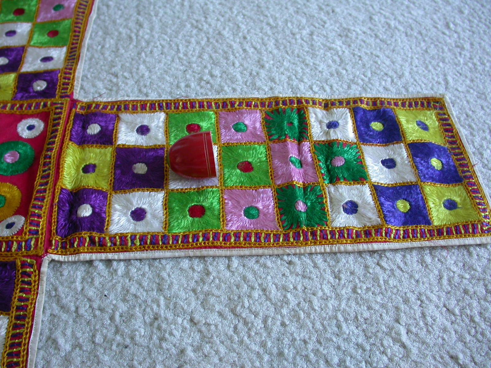 Indian game of Chopat